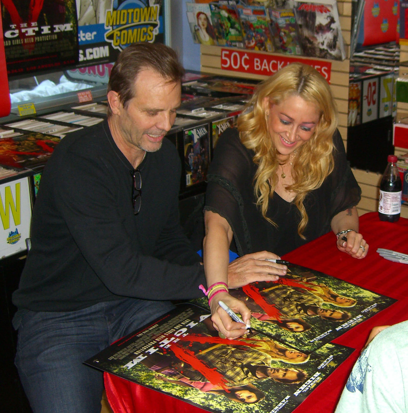 Actor/director Michael Biehn (The Terminator, Aliens, The Abyss) and his wife, actress Jennifer Blanc, at an August 23, 2012 appearance at Midtown Comics Downtown in Manhattan to promote Biehn’s directorial debut, the horror film The Victim, in which both Biehn and Blanc star. This photo was created by Luigi Novi. It is not in the public domain, and use of this file outside of the licensing terms is a copyright violation.